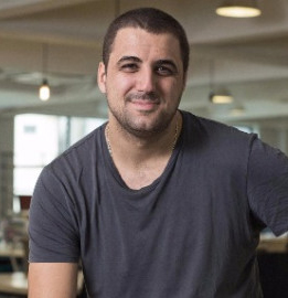 profile picture